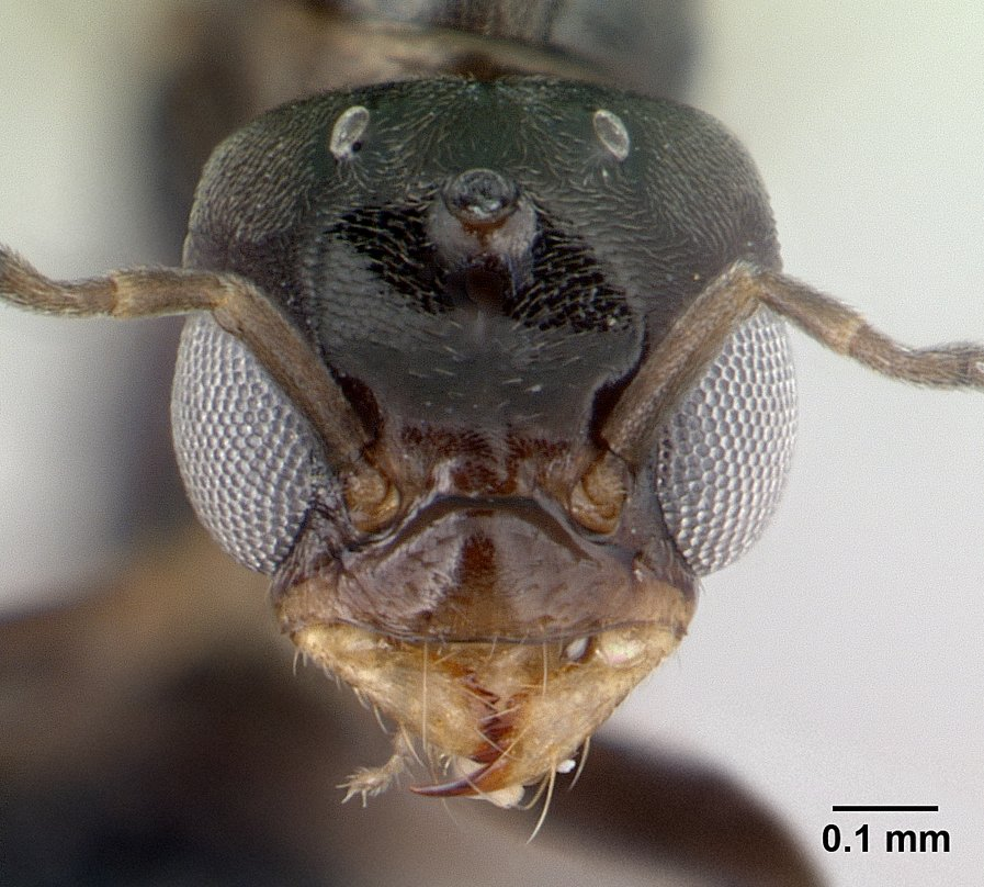 Head view of ant Dorymyrmex biconis specimen casent0192695.